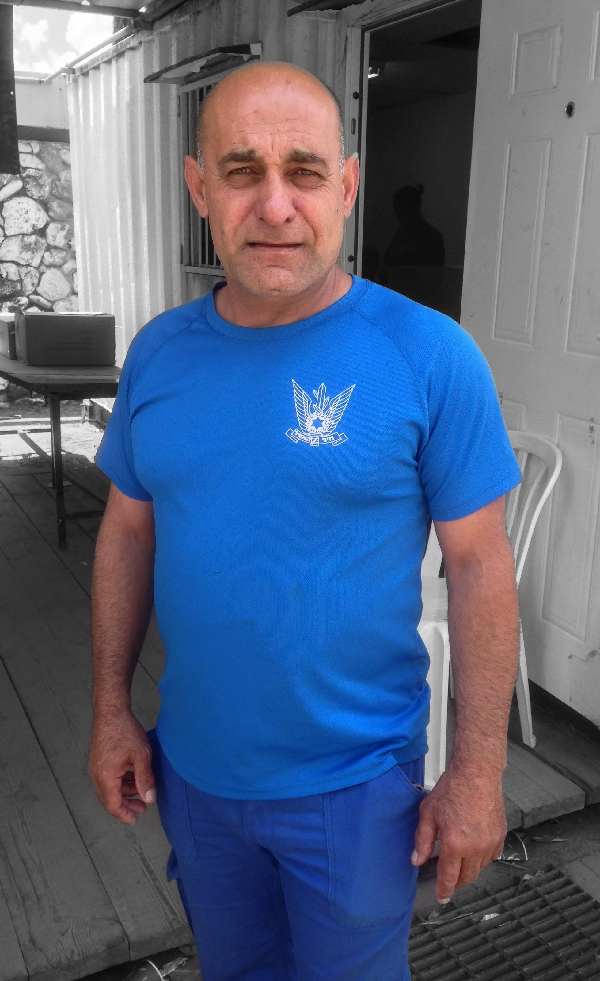 Azzam Azzam - Israeli that in the late 1990's was imprisoned in Egypt being an alleged spy. The picture was taken in his workplace, at the Haifa Oil Refineries, May 2017